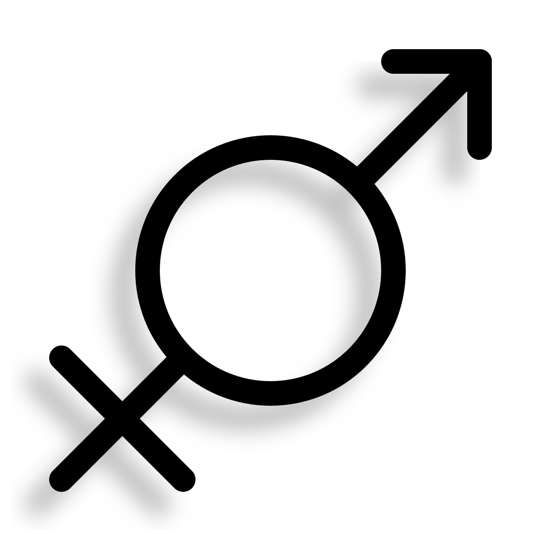 Combines the astrological symbols for Venus and Mars.